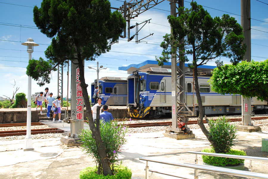 LongJing Station is a local train station of Taiwan's Western main rail line. It's the main station of LongJing Township, TaiChung County. This photo shows two EMU500 trains stopping in the station. Since LongJing Station doesn't have any pedastrian facility such as skybridge or underground pass, passengers have to walk across the rails between the station building and the platform.